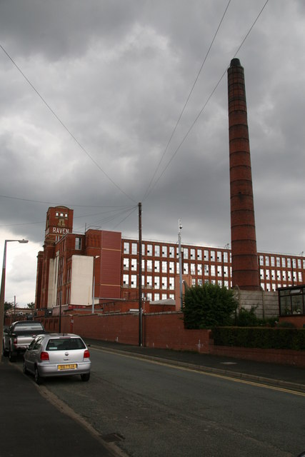 Raven Mill in Chadderton, Greater Manchester, England. Shows the truncated chimney and the red panelling covers the rope race where the engine house has been demolished. Yet another P S Stott mill of 1905 and powered by a 1500 hp Buckley & Taylor engine.